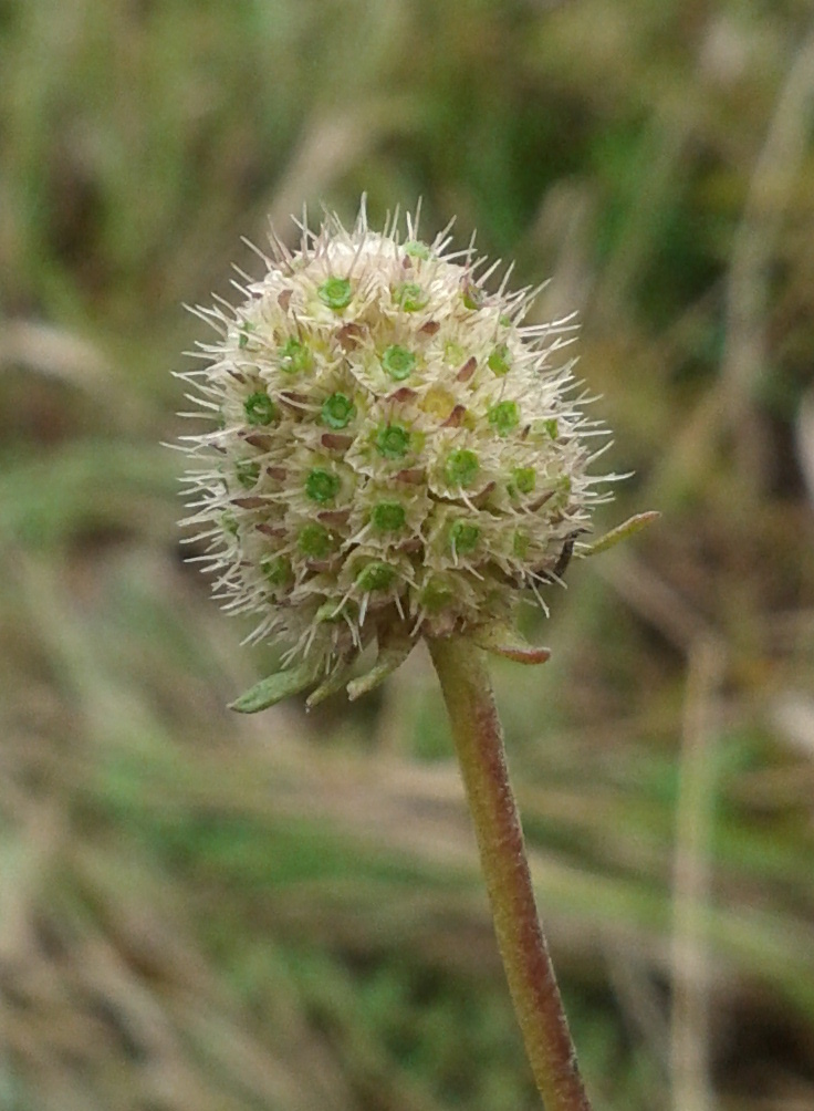 Influctescence Taxonym: Scabiosa canescens ss Fischer et al. EfÖLS 2008 ISBN 978-3-85474-187-9 Location: Stetter Berg, district Korneuburg, Lower Austria - ca. 250 m a.s.l. Habitat: semi-dry grassland